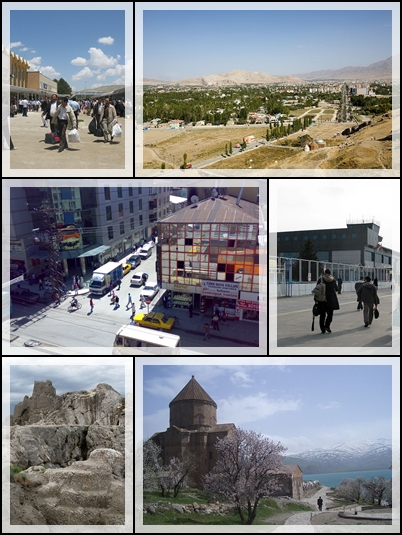 Van, Turkey - Collage